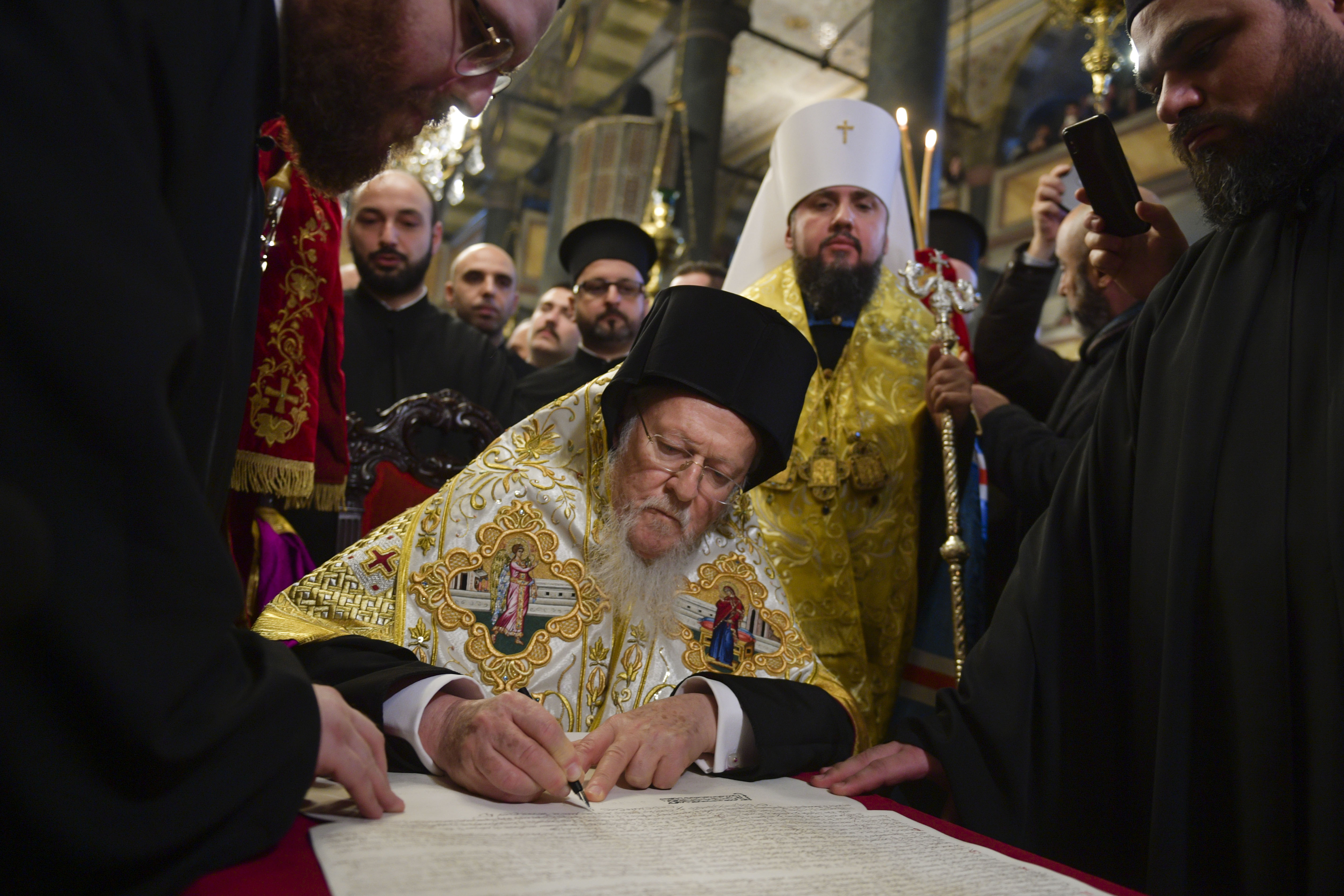 Working visit of the President of Ukraine Petro Poroshenko to the Turkish Republic (2019-01-05)